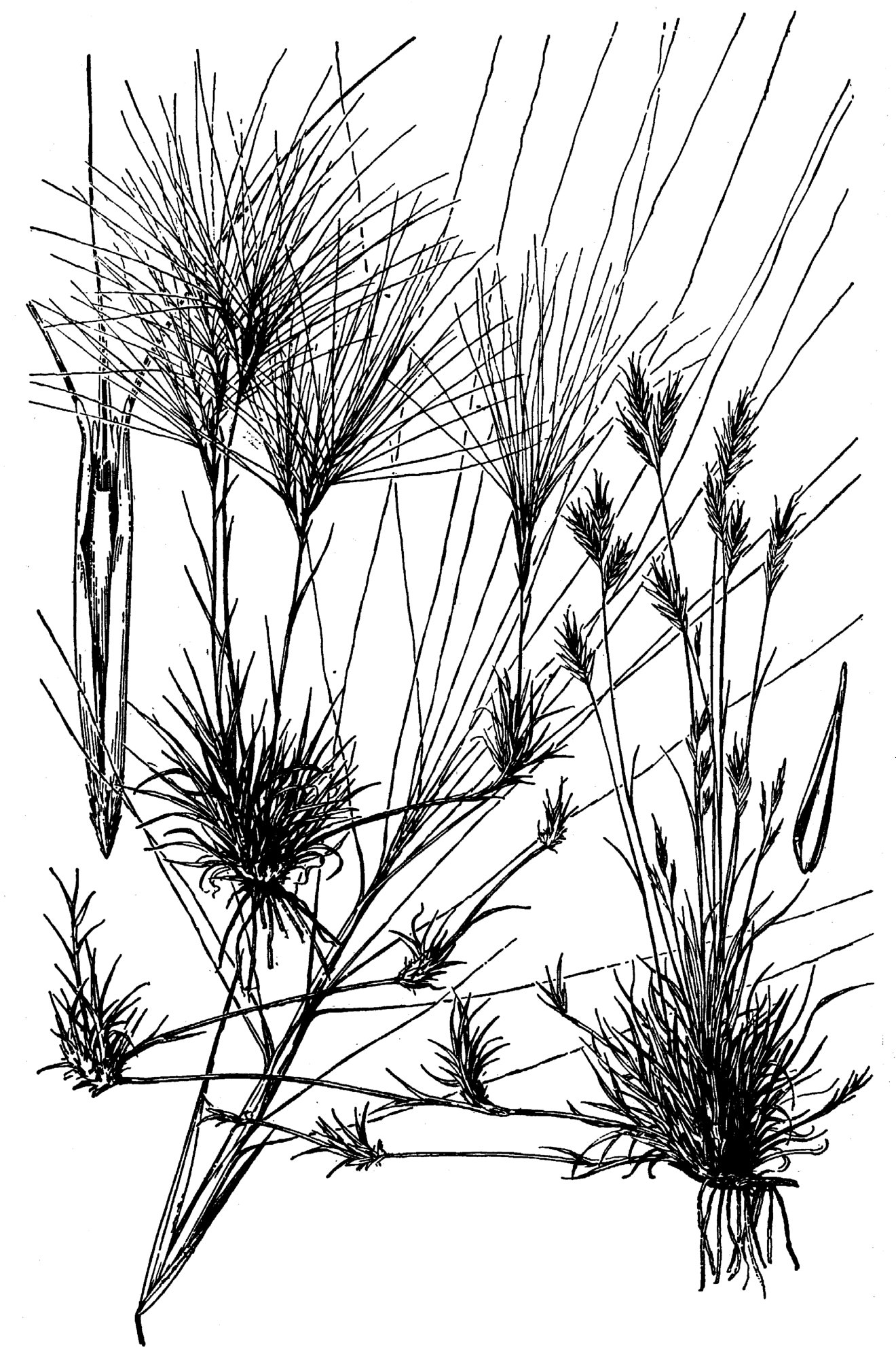 Scleropogon brevifolius from Hitchcock, A.S. (rev. A. Chase). 1950. Manual of the grasses of the United States. USDA Miscellaneous Publication No. 200. Washington, DC. 1950